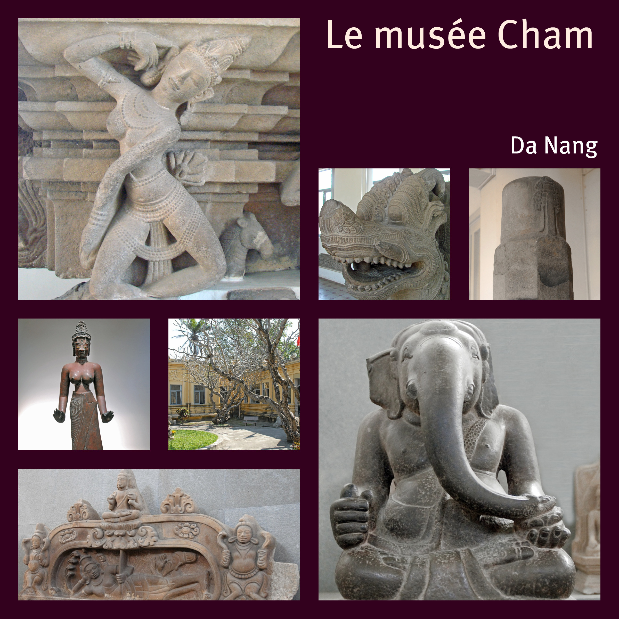 Catalogue for the Museum of Cham Sculpture — a collection of Champa Kingdom sculptures, in Da Nang, Vietnam.